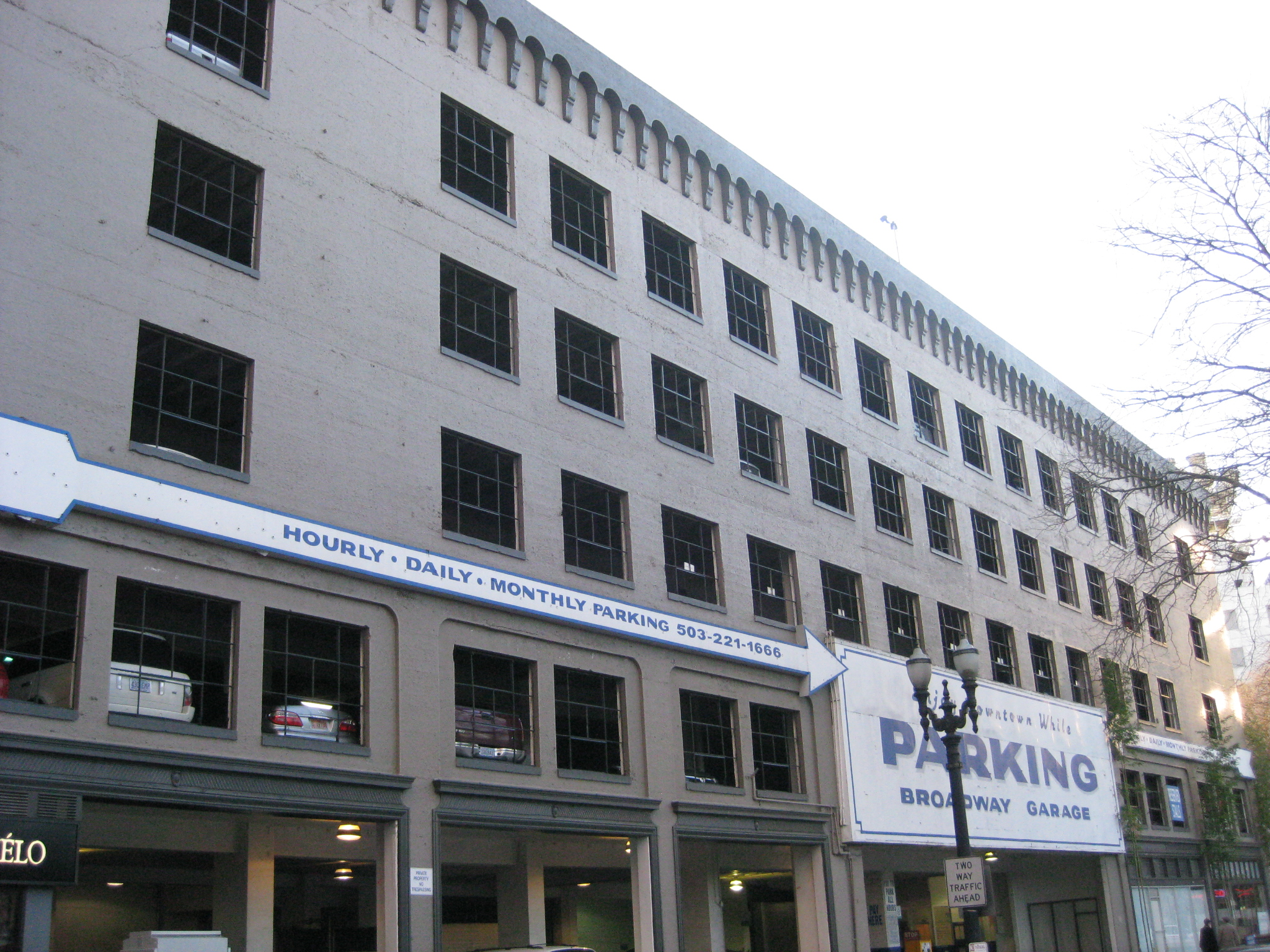 The historic Corbett Brothers Auto Storage Garage (built 1926) is also known as Broadway Garage and is located 630 SW Pinein Portland, Oregon, United States, is listed on the US National Register of Historic Places (NRHP).NRHP reference number 96000999